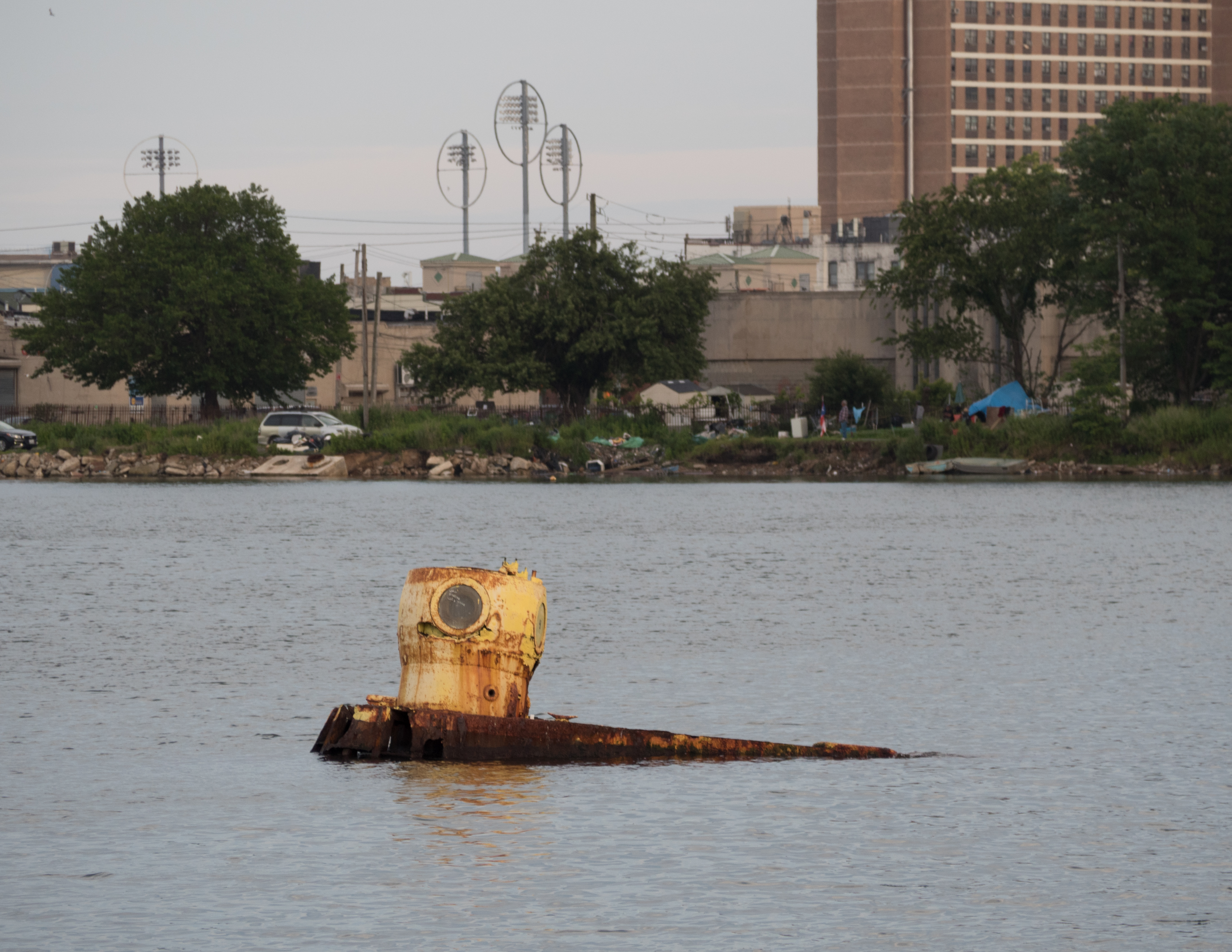 Quester I in Gravesend Bay